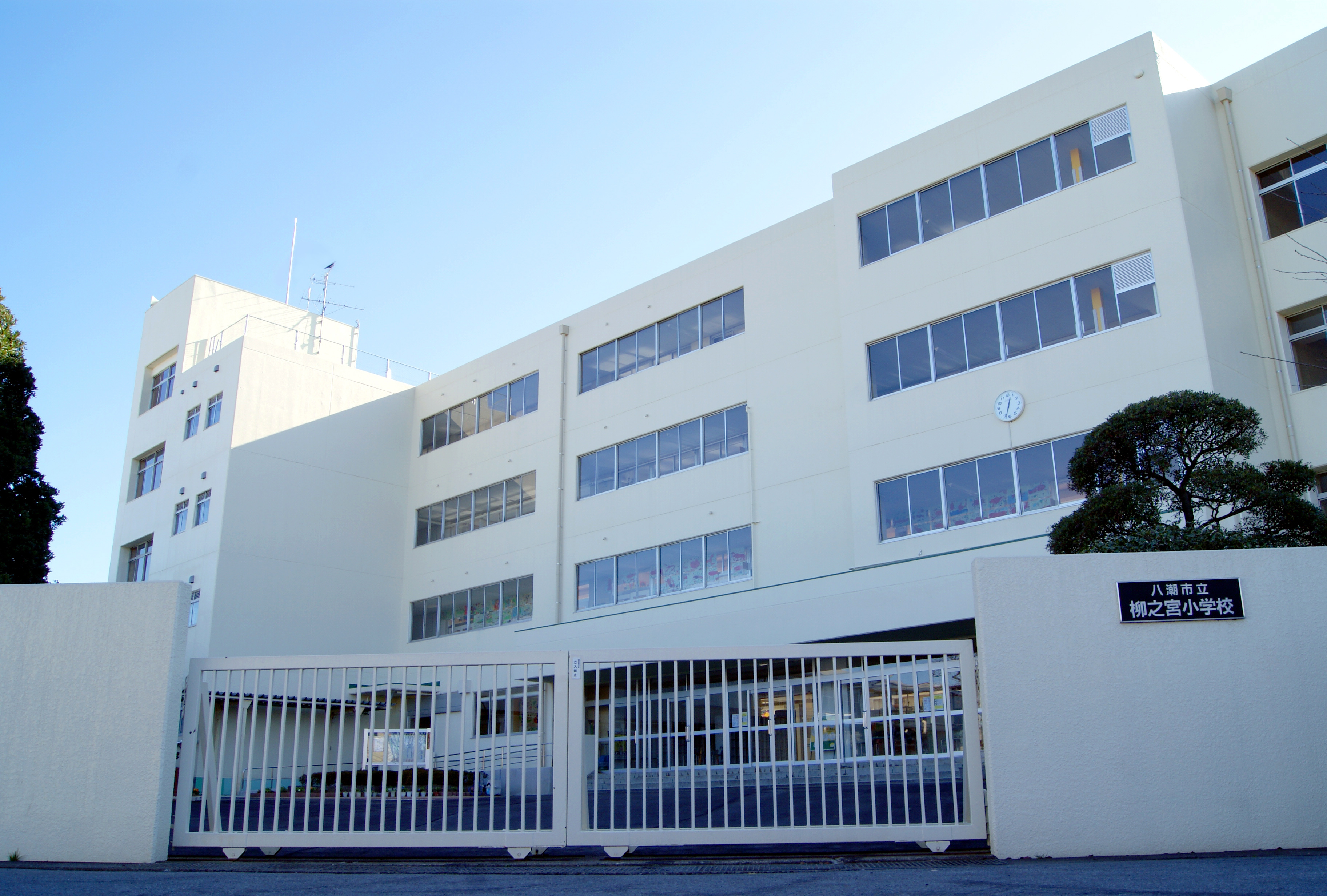 Yanaginomiya Elementary school in Yashio, Saitama.